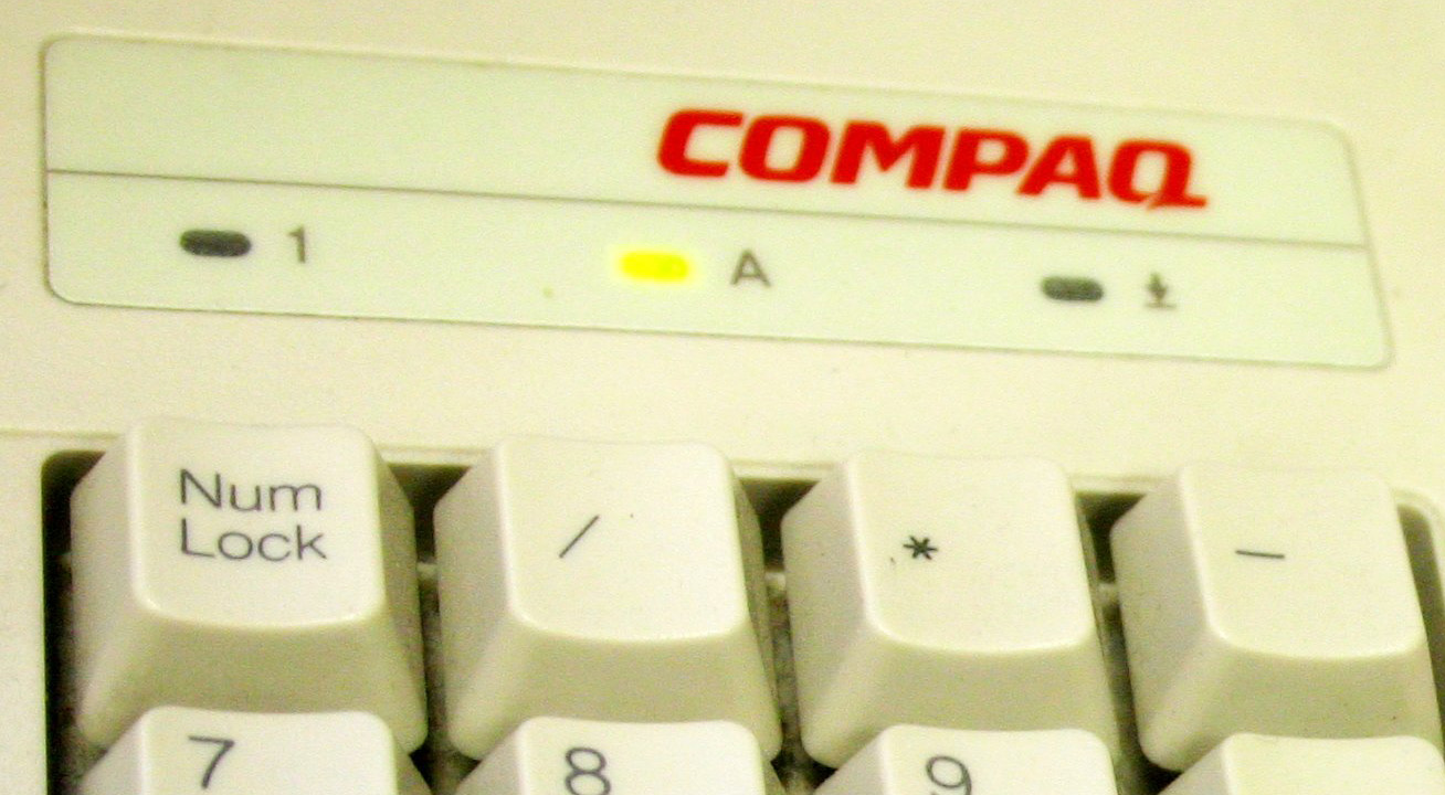 Compaq keyboard and mouse